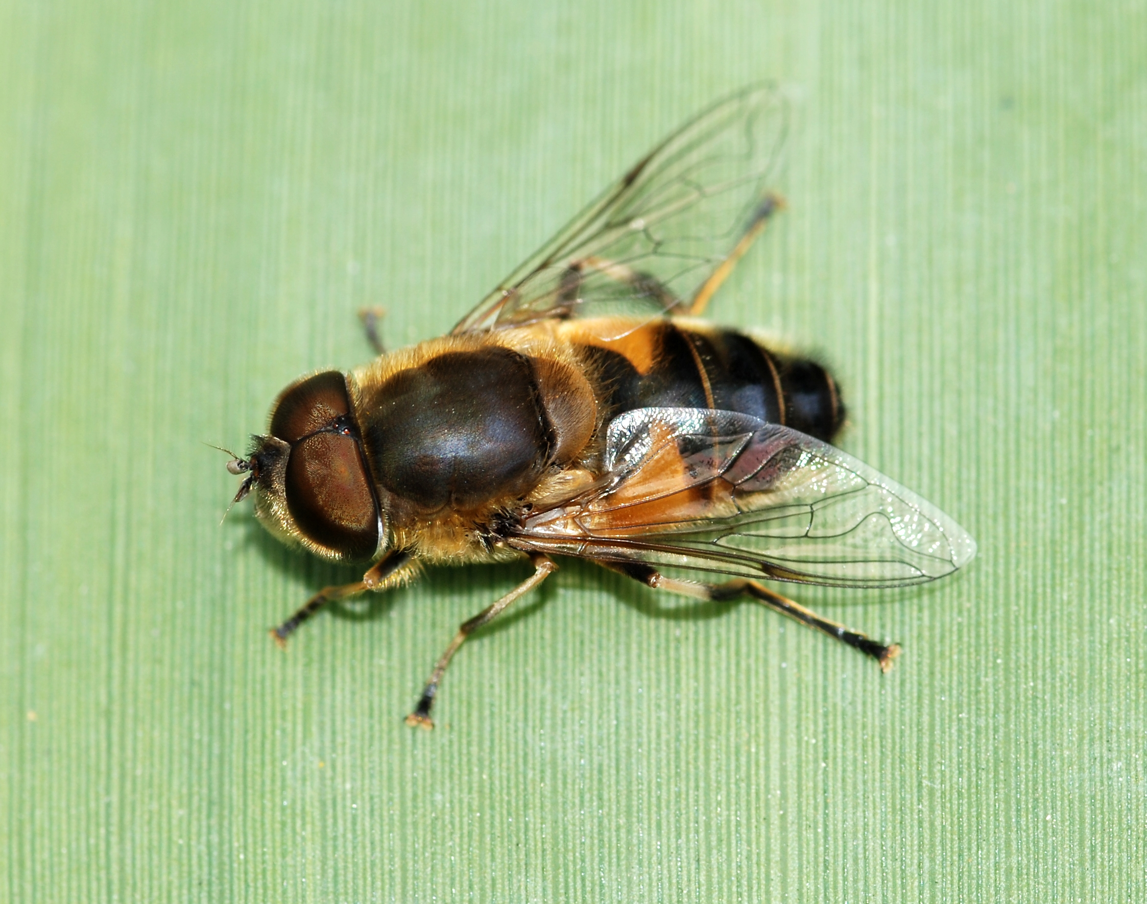 Eristalis similis, male